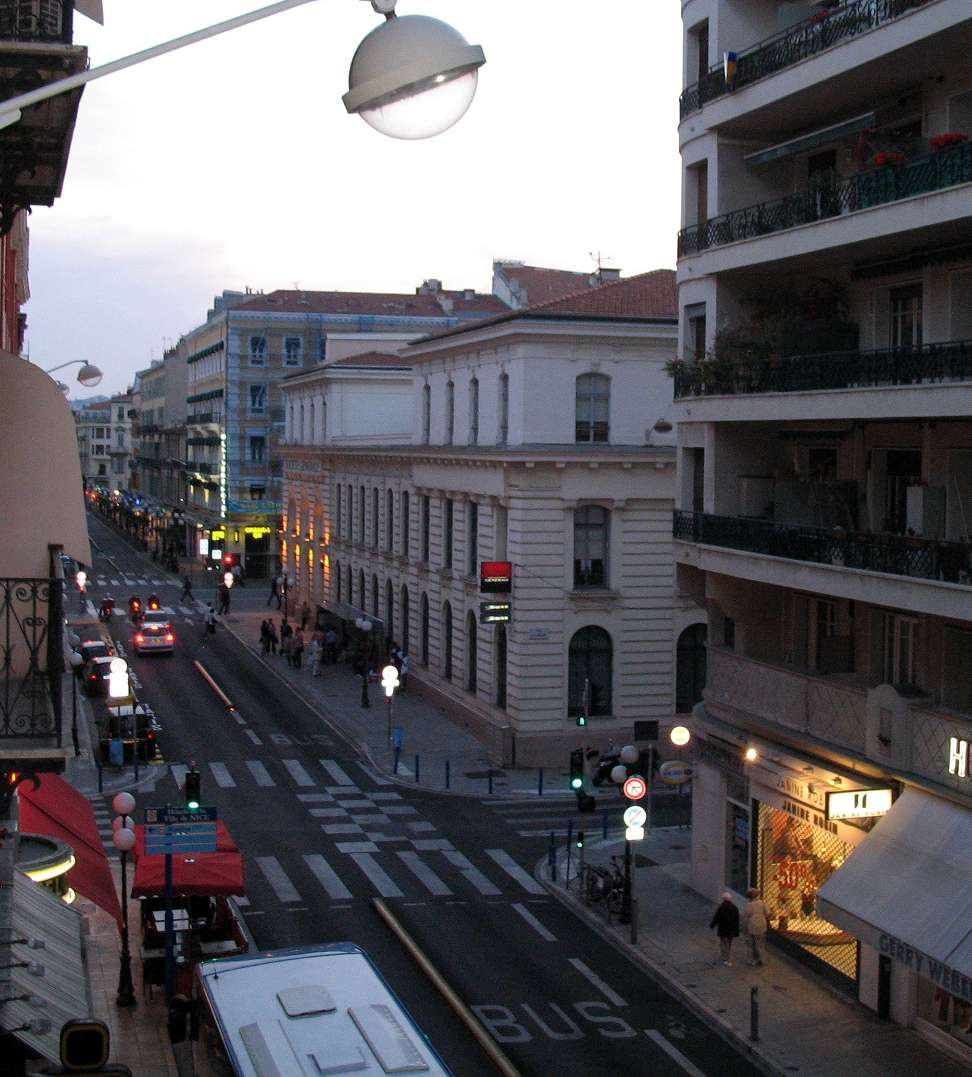 The building of the Société Générale on the rue de l'Hôtel des Postes, in Nice, France.